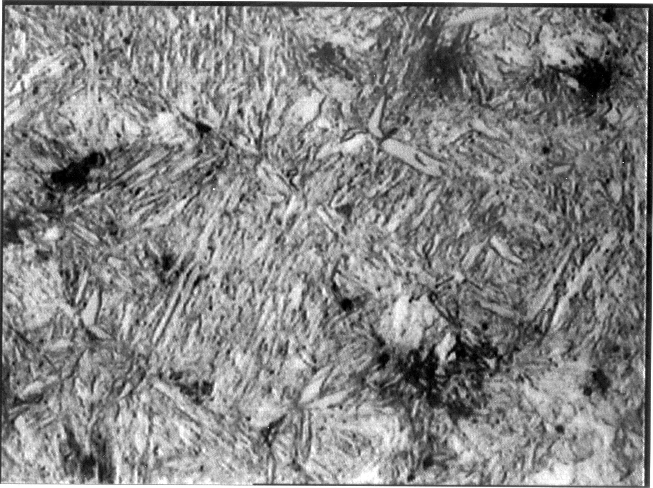 0.35%C Steel, water quenched from 870°C Taken during my engineering course at Nanyang Technological University